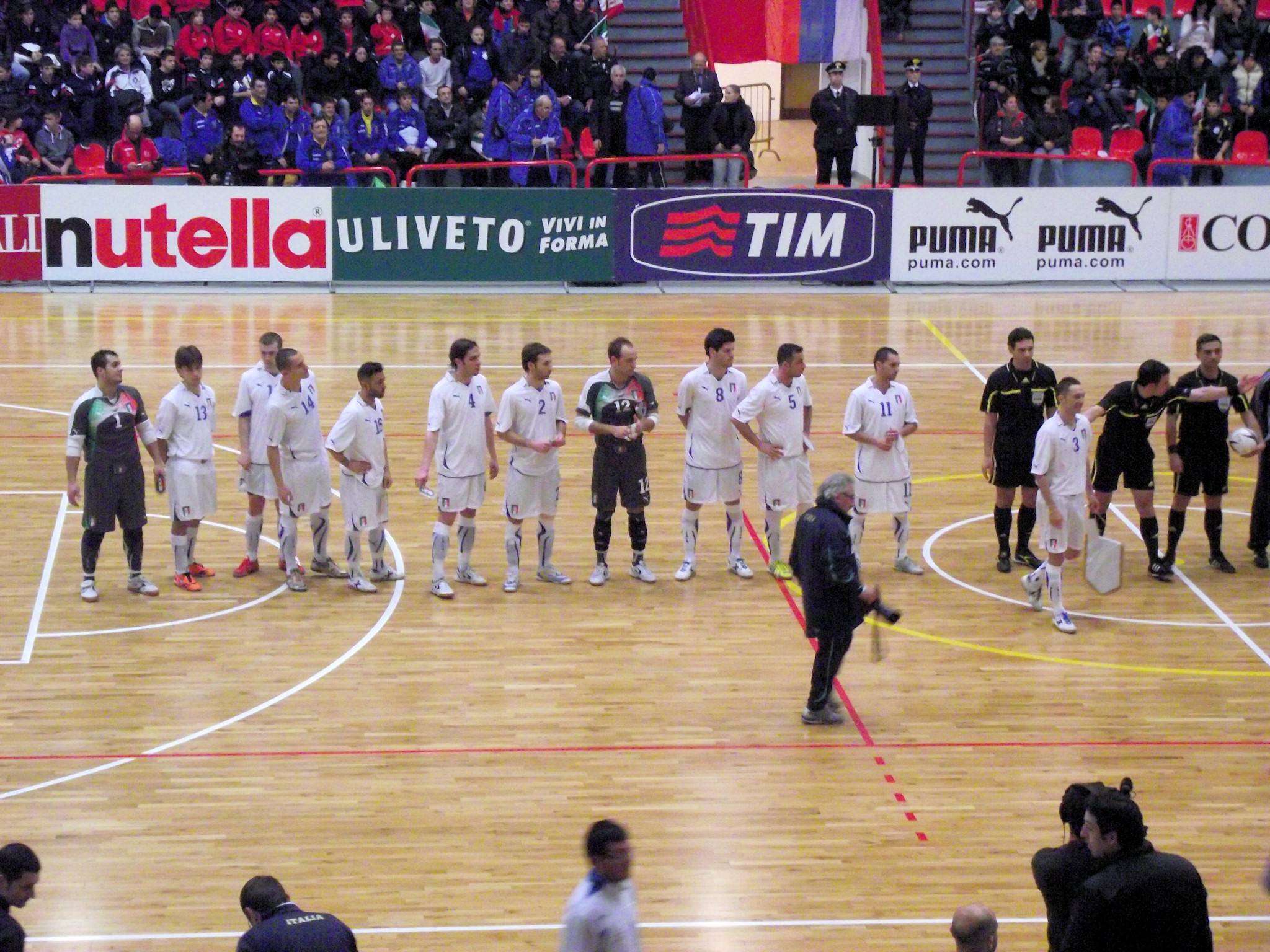 The players of the futsal national team of Italy before the test match with Serbia played in Carbonia, Sardinia, Italy, on 19th January 2011, ended 2-0 for the azzurri